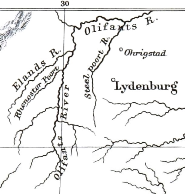 View this map on the BL Georeferencer service. Image taken from: Title: "History of the Boers in South Africa ... with three maps" Author: THEAL, George McCall. Shelfmark: "British Library HMNTS 9061.eee.18." Page: 11 Place of Publishing: London Date of Publishing: 1887 Publisher: Sonnenschein & Co. Issuance: monographic Identifier: 003607007 Explore: Find this item in the British Library catalogue, 'Explore'. Download the PDF for this book (volume: 0) Image found on book scan 11 (NB not necessarily a page number) Download the OCR-derived text for this volume: (plain text) or (json) Click here to see all the illustrations in this book and click here to browse other illustrations published in books in the same year. Order a higher quality version from here. This file is from the Mechanical Curator collection, a set of over 1 million images scanned from out-of-copyright books and released to Flickr Commons by the British Library. Please add the Flickr page URL for the image Please add the British Library system number for the book This tag does not indicate the copyright status of the attached work. A normal copyright tag is still required. See Commons:Licensing.